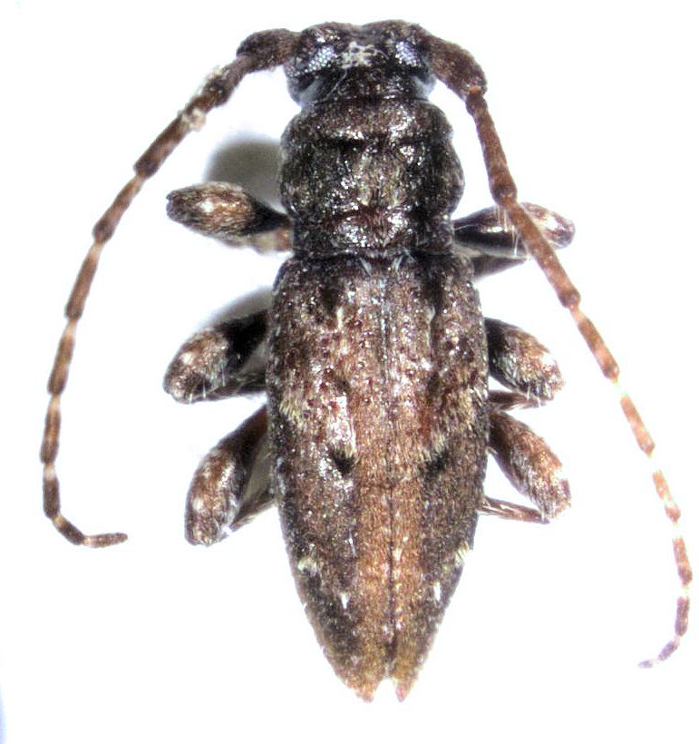 adult Xylotoloides huttoni Locality: 42°37′S 172°27′E / 42.617°S 172.45°E, forest 256m ground, Home Range (0ha), Canterbury, New Zealand FIT: 16 days (#1808-008) Collector, date: RK Didham 10-Feb-01